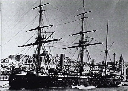 AWM caption : "PORT BOW VIEW OF THE SCREW GUNVESSEL HMS RAMBLER WHICH WAS FITTED OUT AS A SURVEY VESSEL AND OPERATED AS SUCH ON THE AUSTRALIA STATION."